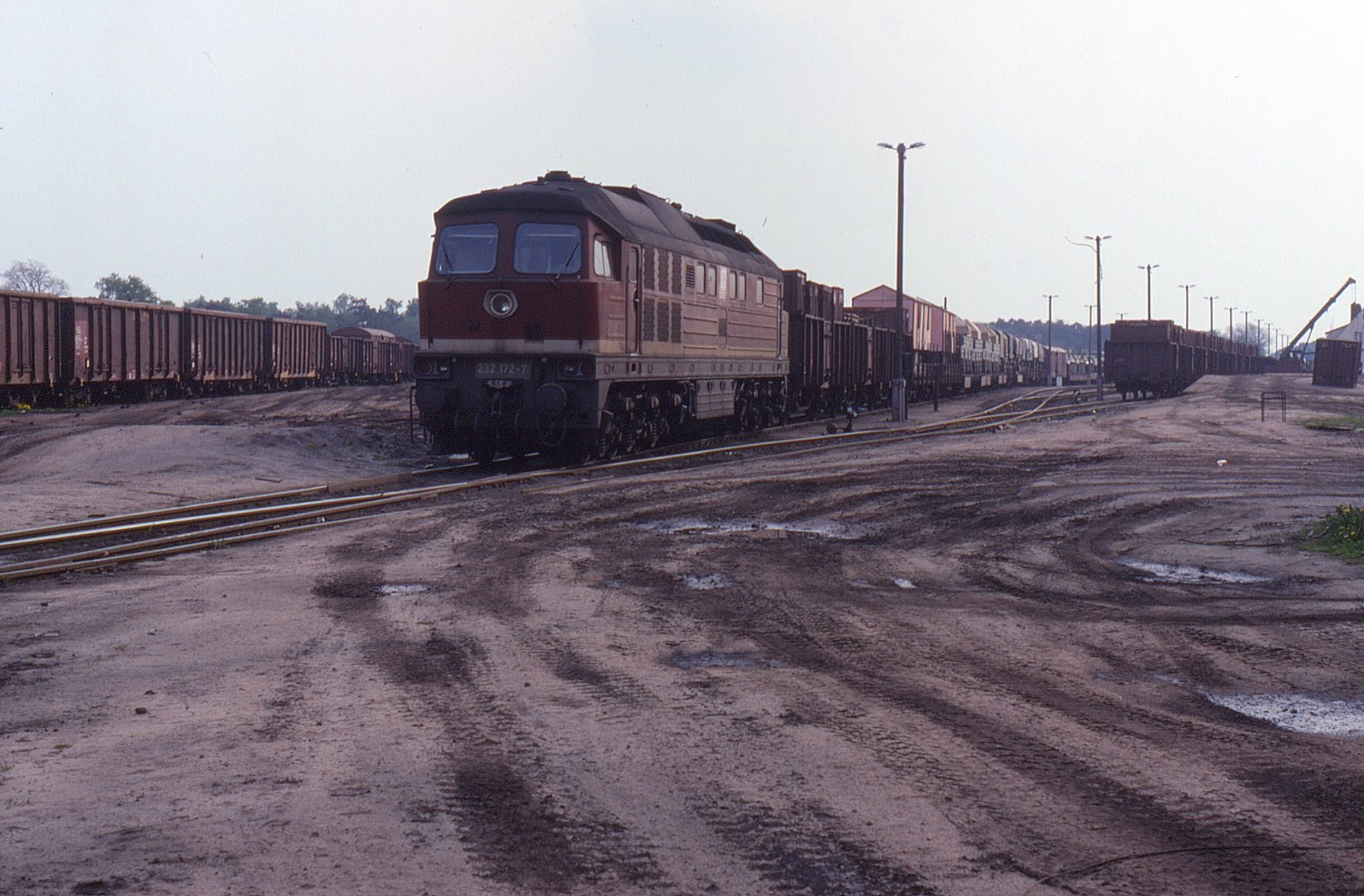 On a visit to the line from Biederitz to Altengrabow, at the branch end was a rail served military depot. Seen here on 6 May 1994, 232.172 is seen in the sidings.